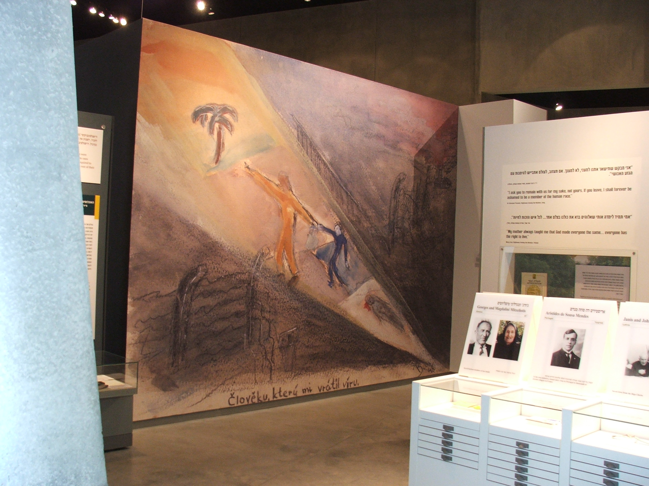 Inside Yad Vashem Museum in Jerusalem with the reproduction of the painting by holocaust survival Yehuda Bacon.